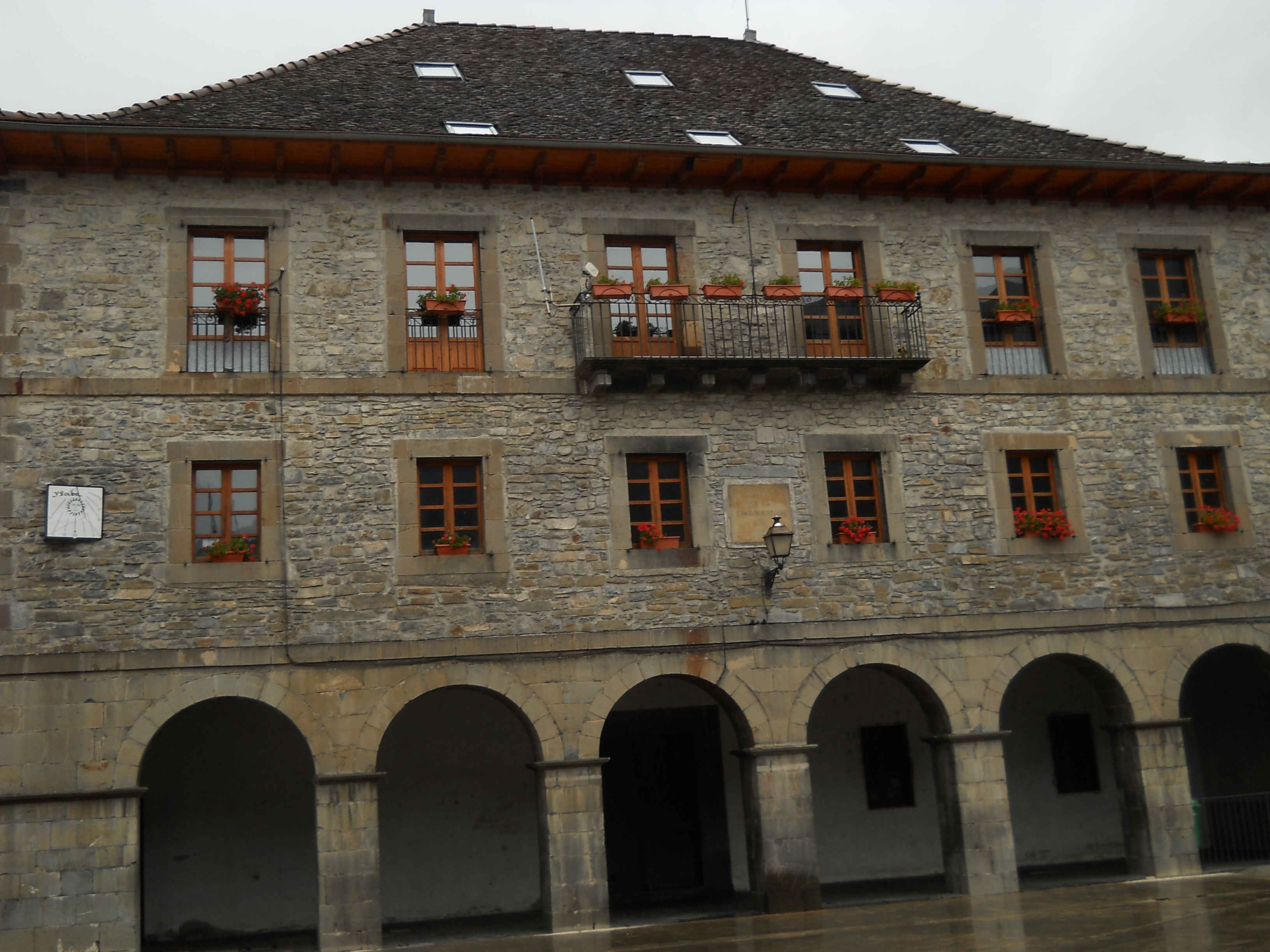 Town hall, Isaba, Navarre, Spain